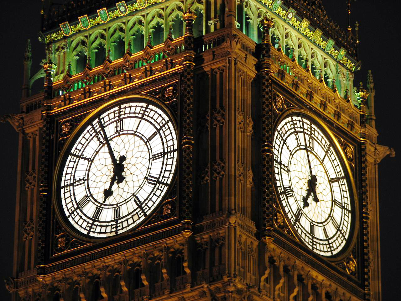 Big Ben illuminated at night